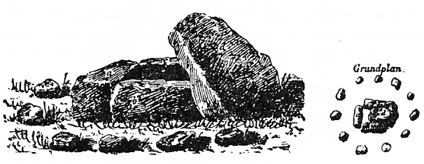 Megalithic Tomb Thelkow (Sprockhoff-No. 358)